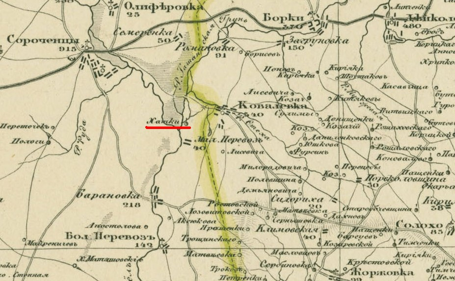 Village Hutky, Shishatskiy distric,t map 1842